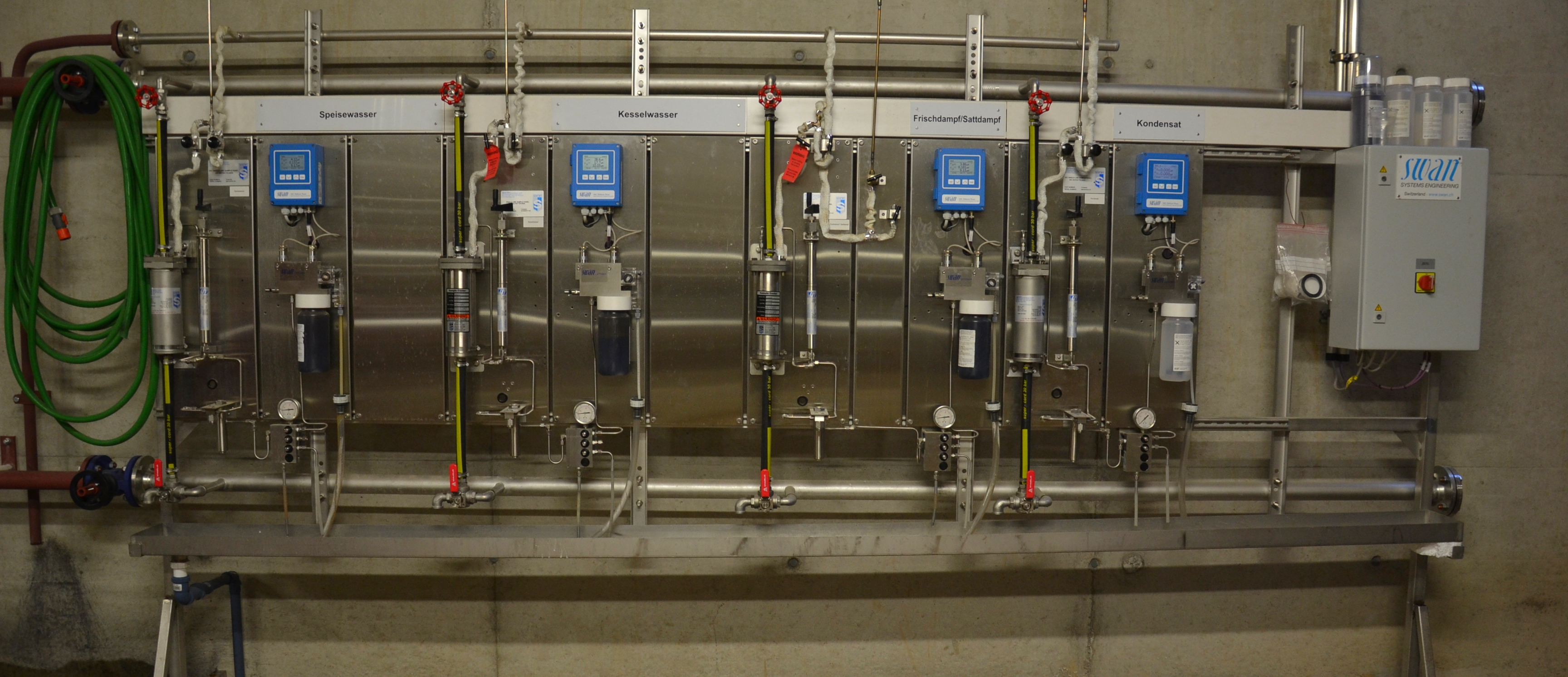 Water analysis in a power plant